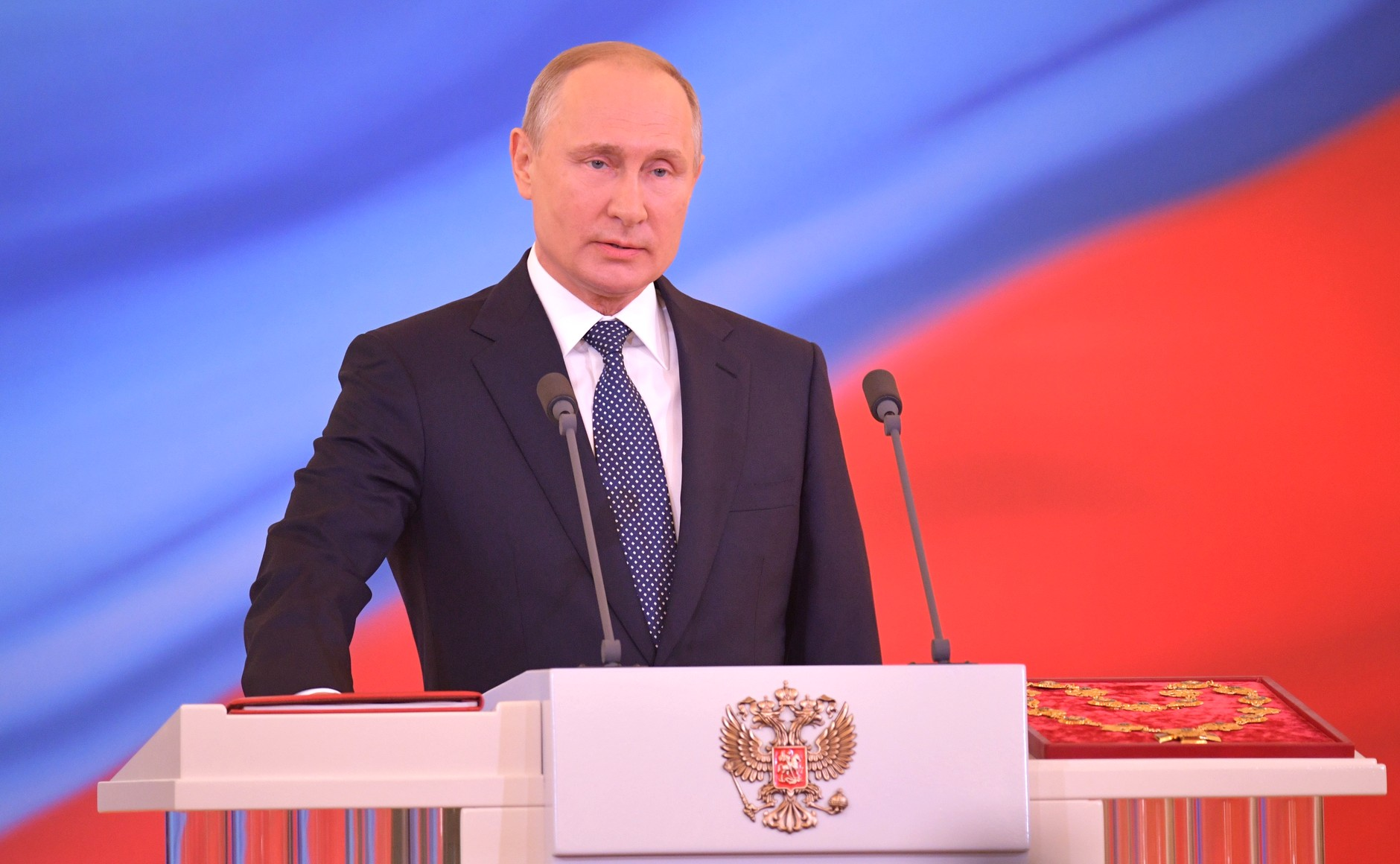 Vladimir Putin takes the oath of office as the President of Russia